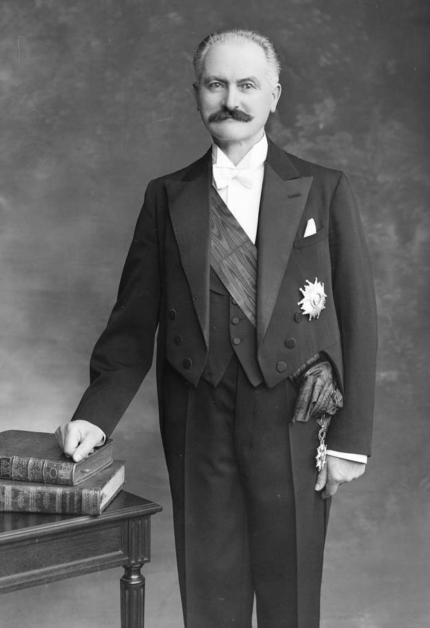 French statesman Albert Lebrun (1871-1950).